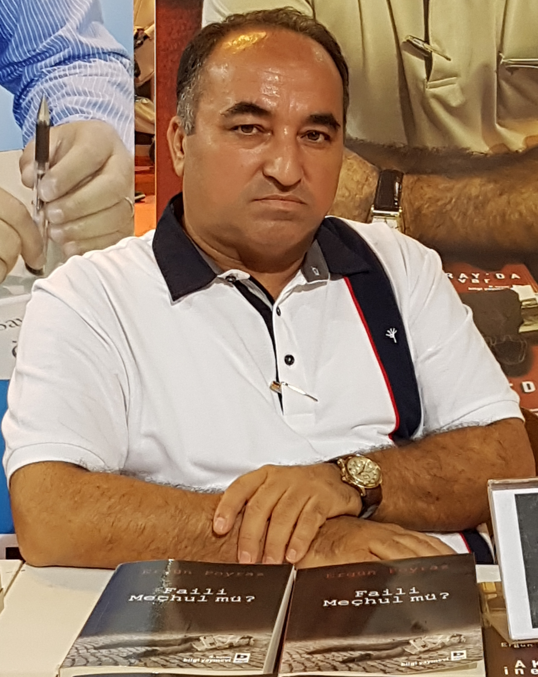 Ergün Poyraz at Kocaeli Book Exhibition, May 2016